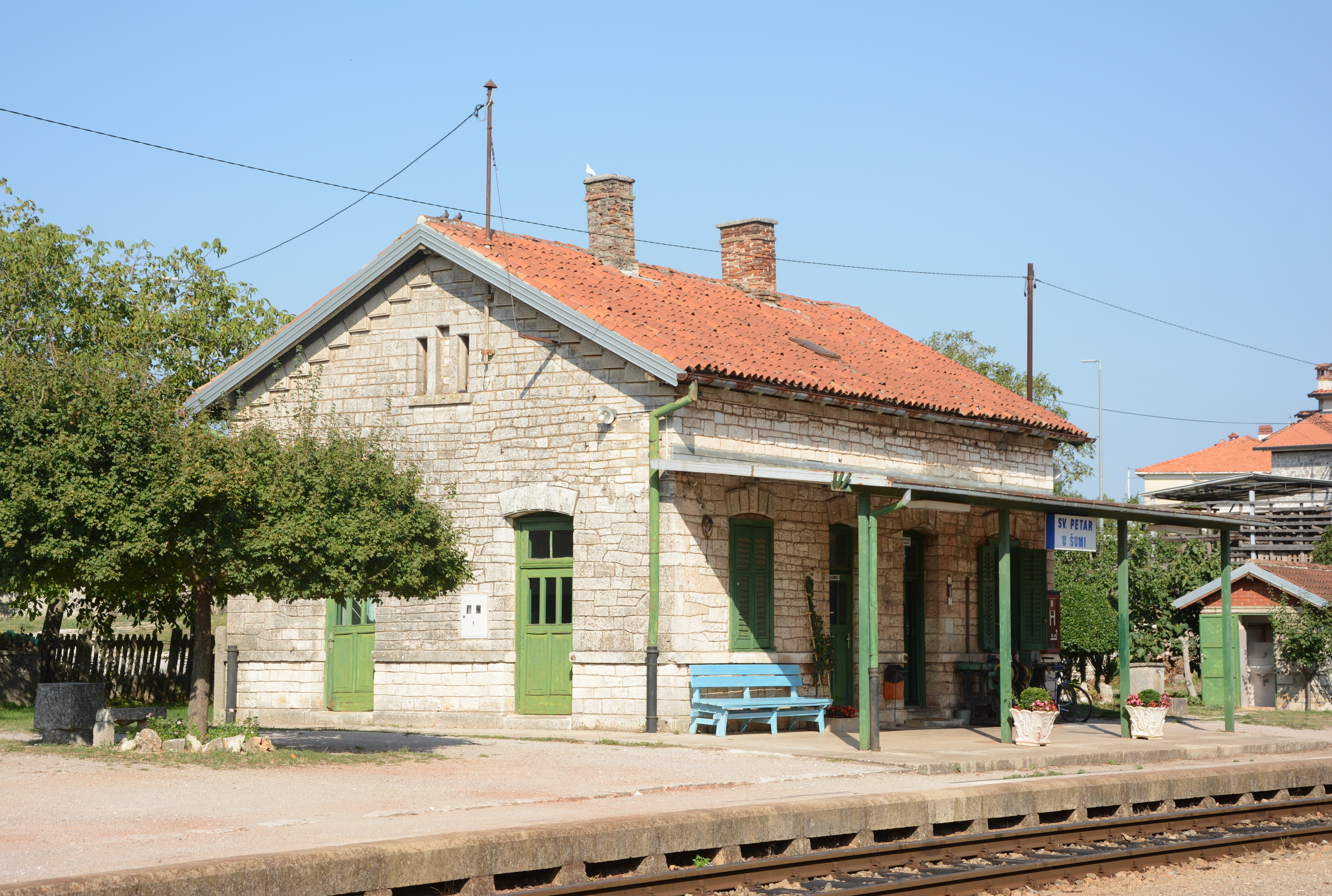 Sveti Petar u Šumi railway station, Croatia